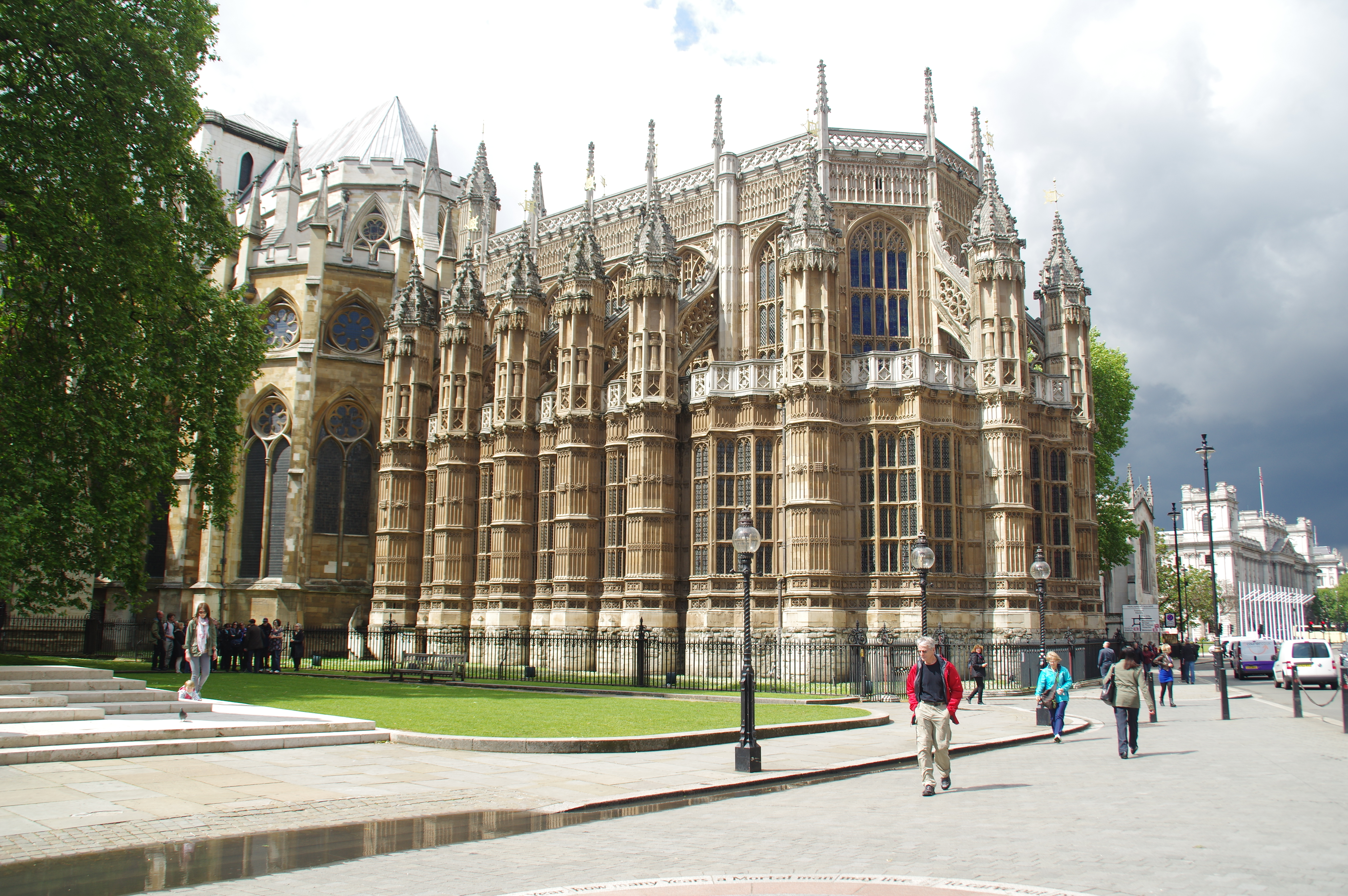 VIEW : ®'s / DigiGraf / Ð / ┼ : City of WESTMINSTER_GREATER LONDON_ENGLAND